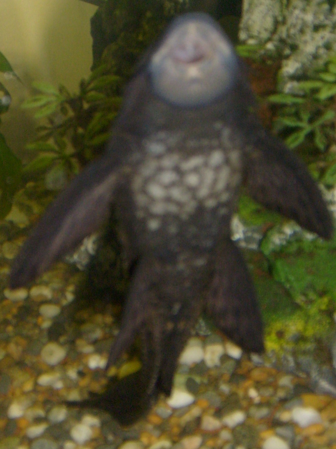 Pleco sucking the side of the aquarium wall. We call him Mr. Sneaky Sneaky.